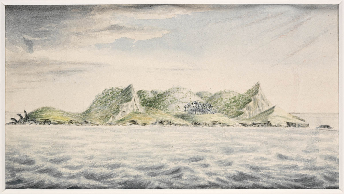 A view of Pitcairn's Island, South Seas, 1814, J. Shillibeer, State Library of New South Wales DL Pd 702